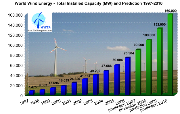 World Wind Energy - Total Installed Capacity and Prediction 1997-2010.